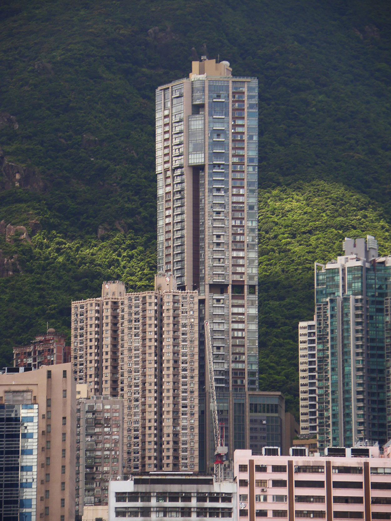 39 Conduit Road in West Mid-levels, Hong Kong.